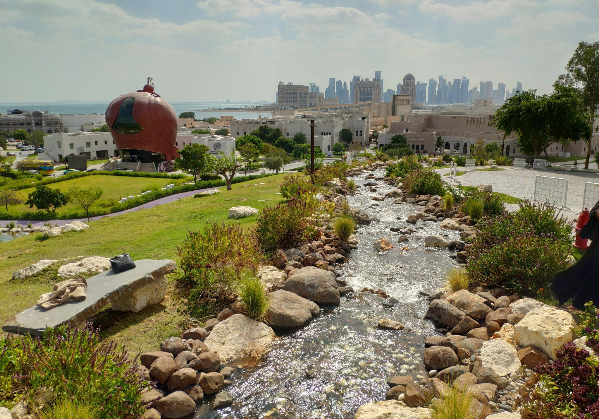 Overview of buildings and a water stream in Katara cultural village, Qatar